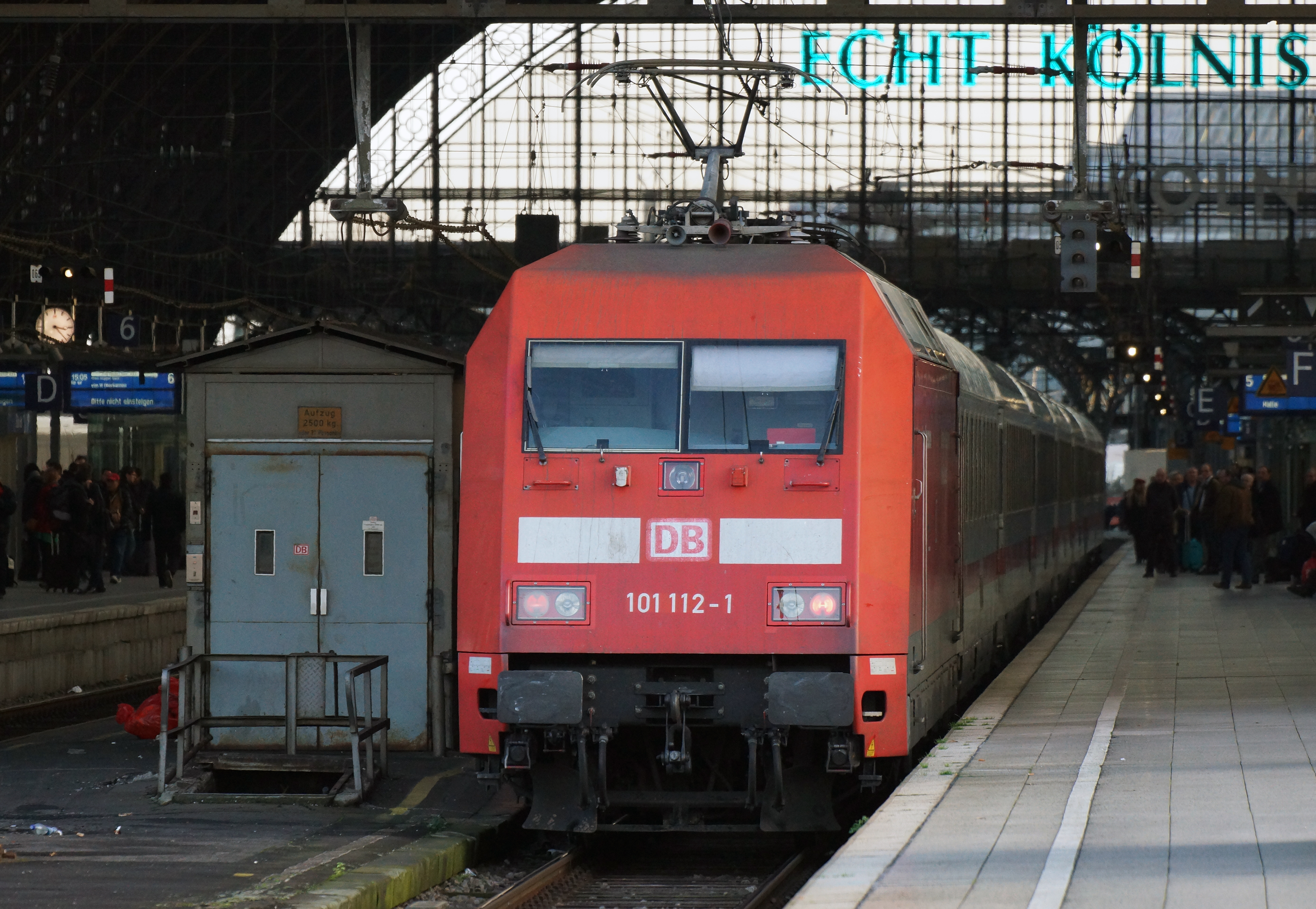 DBAG 101 112-1 at Cologne main station.